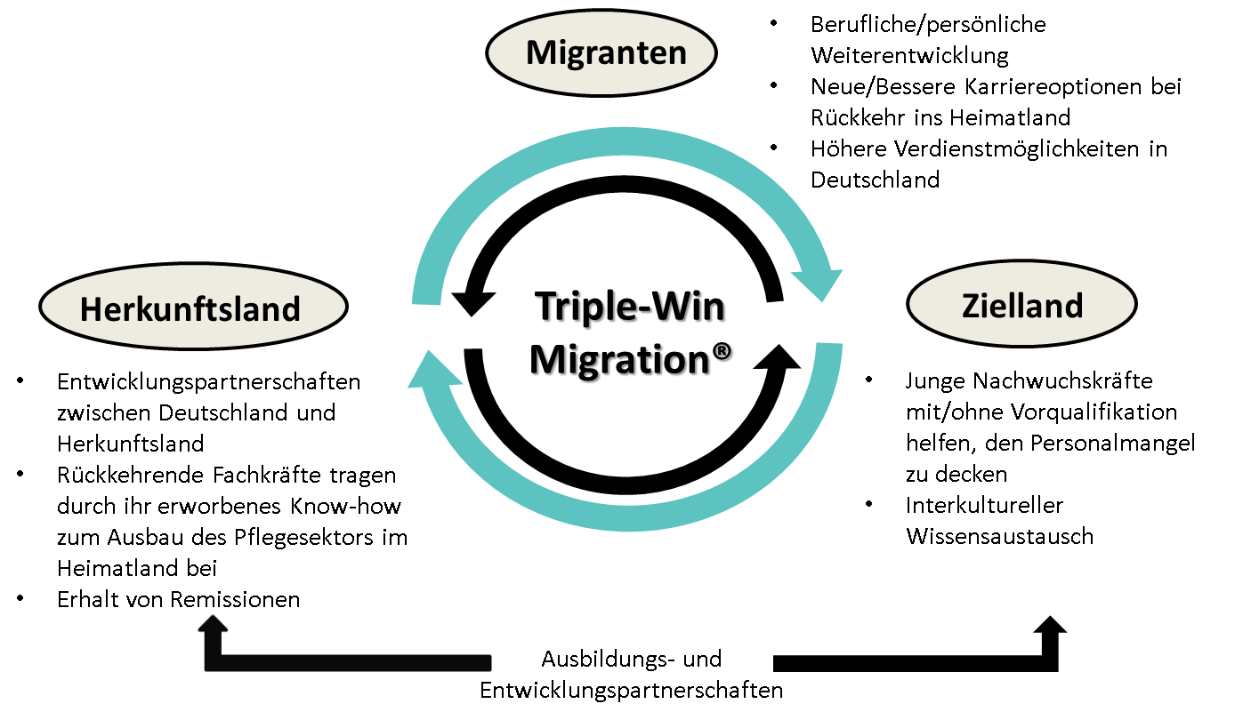 Triple-Win Migration